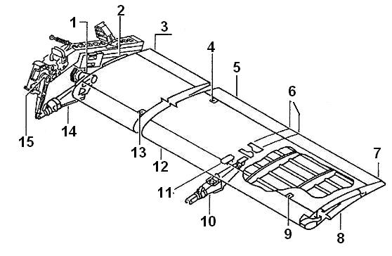 Flaps A-319 schematic: 1-Axis of rotation; 2 –Sealed connection; 3-Rib; 4-Tappet linkage; 5-Trailing edge-; 6-Ribs; 7-Rib; 8- Sealed connection; 9-Tappet linkage; 10-Strut; 11-Bracket; 12-Leading edge; 13-Tappet linkage; 14-Strut; 15-Actuator attachment fitting